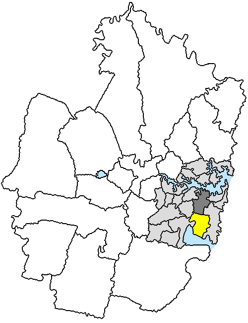 Map of Sydney/New South Wales/Australia, LGA of the City of Botany Bay highlighted